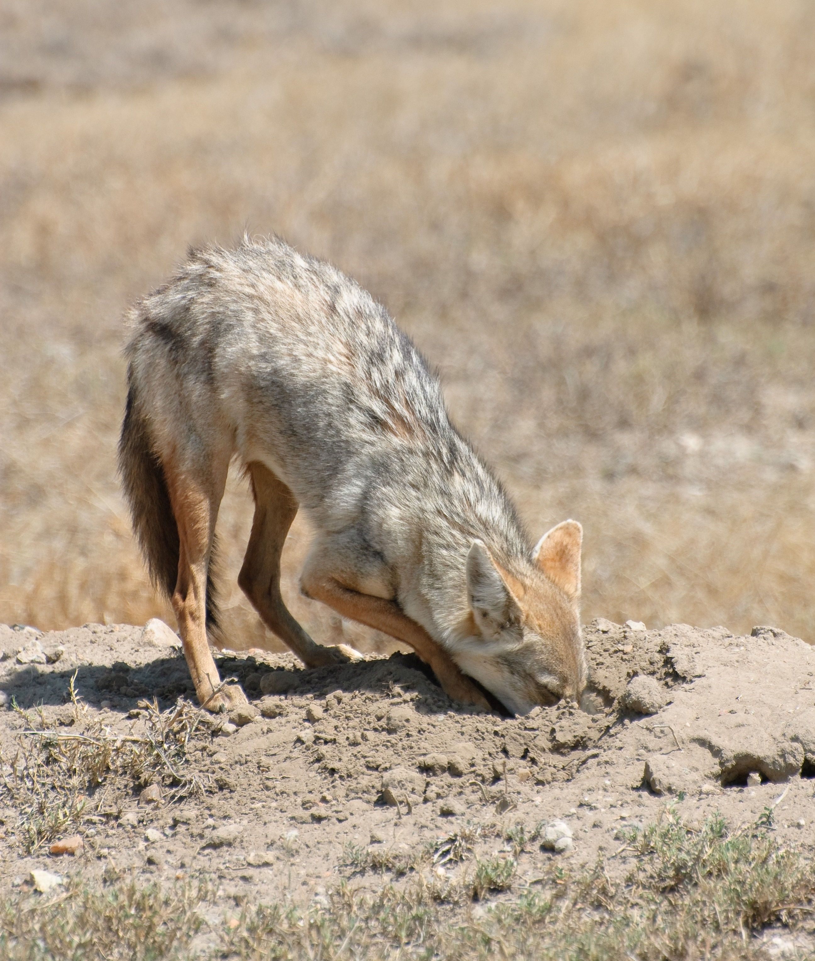 African wolf in the Serengeti